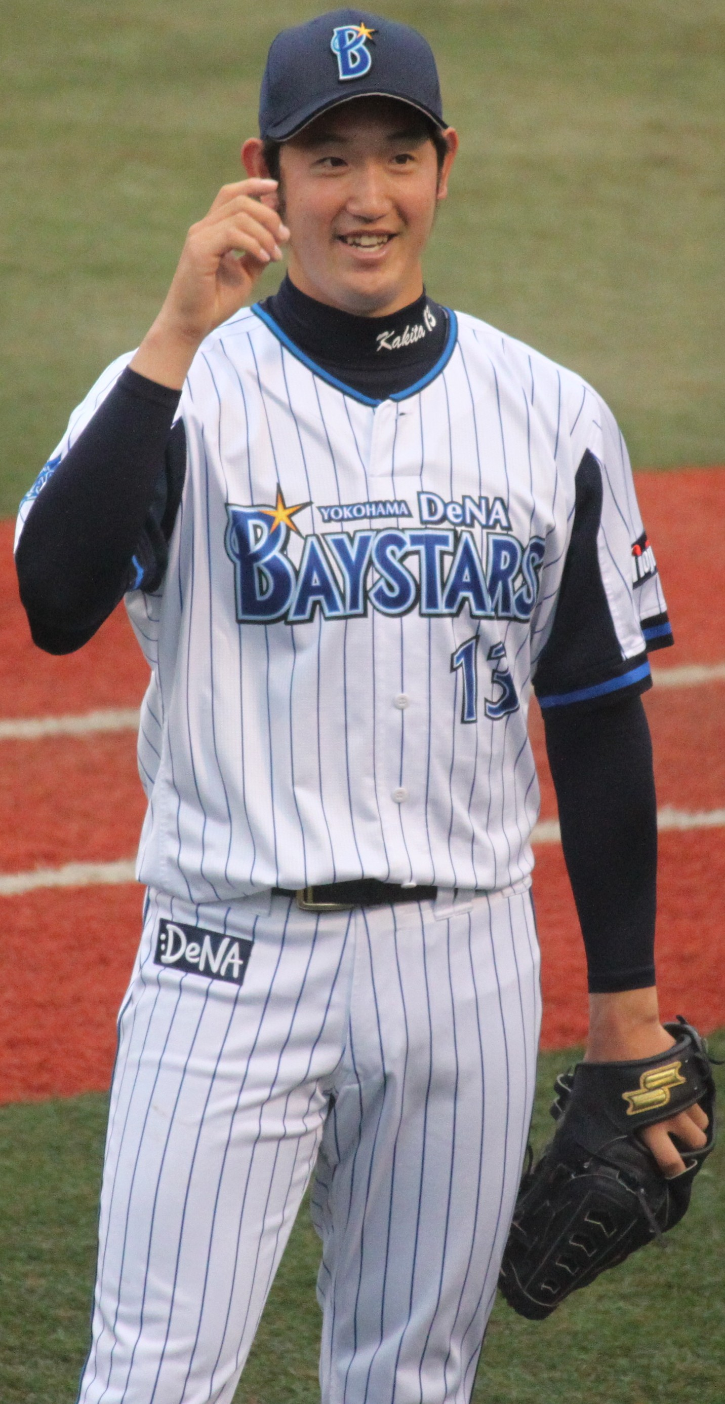 Yuta Kakita, pitcher of the Yokohama DeNA BayStars, at Yokosuka Stadium.